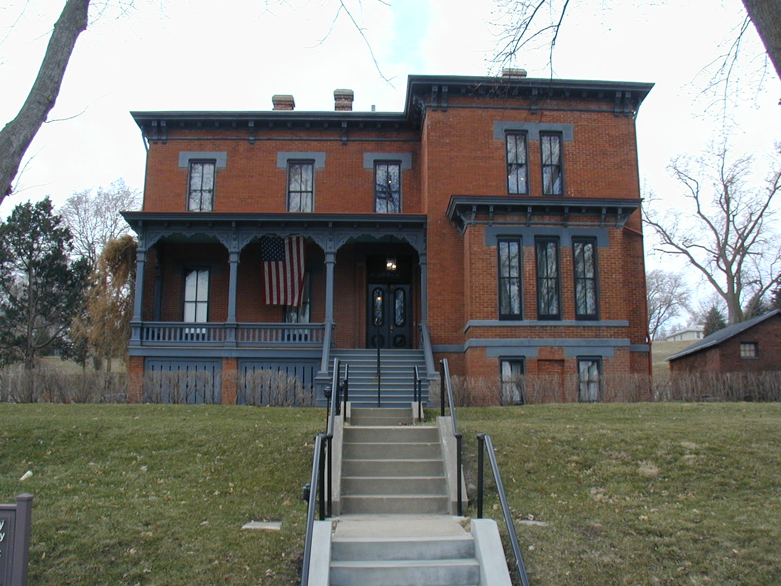 Photo taken from the East of General Crook house at Fort Omaha in Omaha Nebraska.